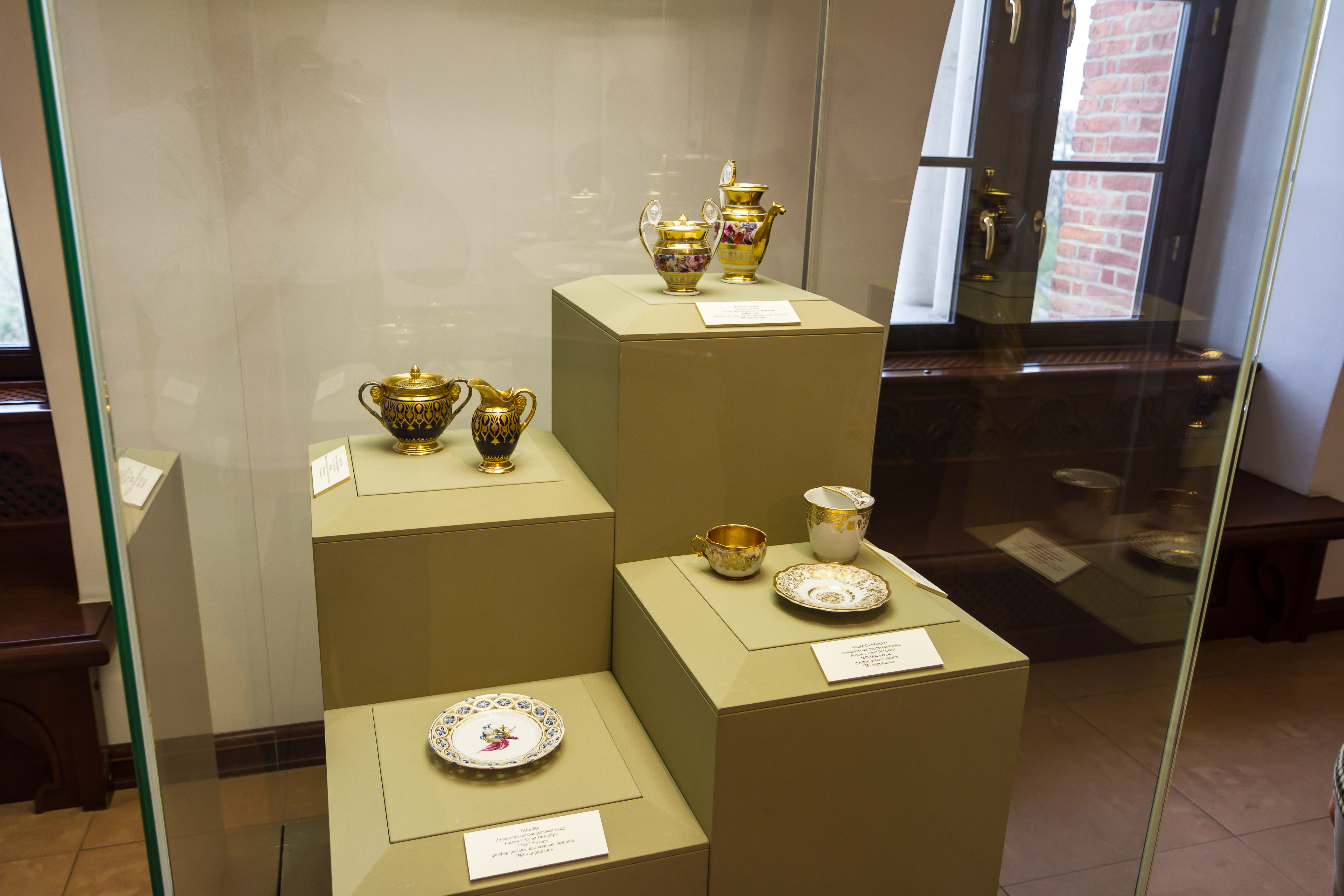 Orekhovo-Borisovo Severnoye District, Moscow, Russia